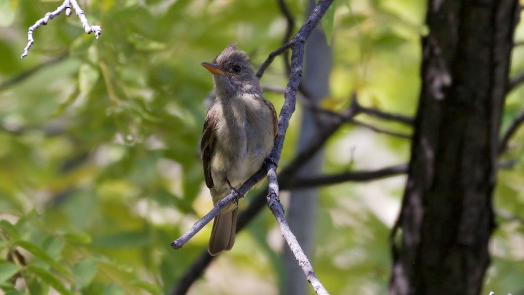 Greater Pewee | Hunter Canyon | Sierra Vista |AZ | 2015-10-03at13-23-194